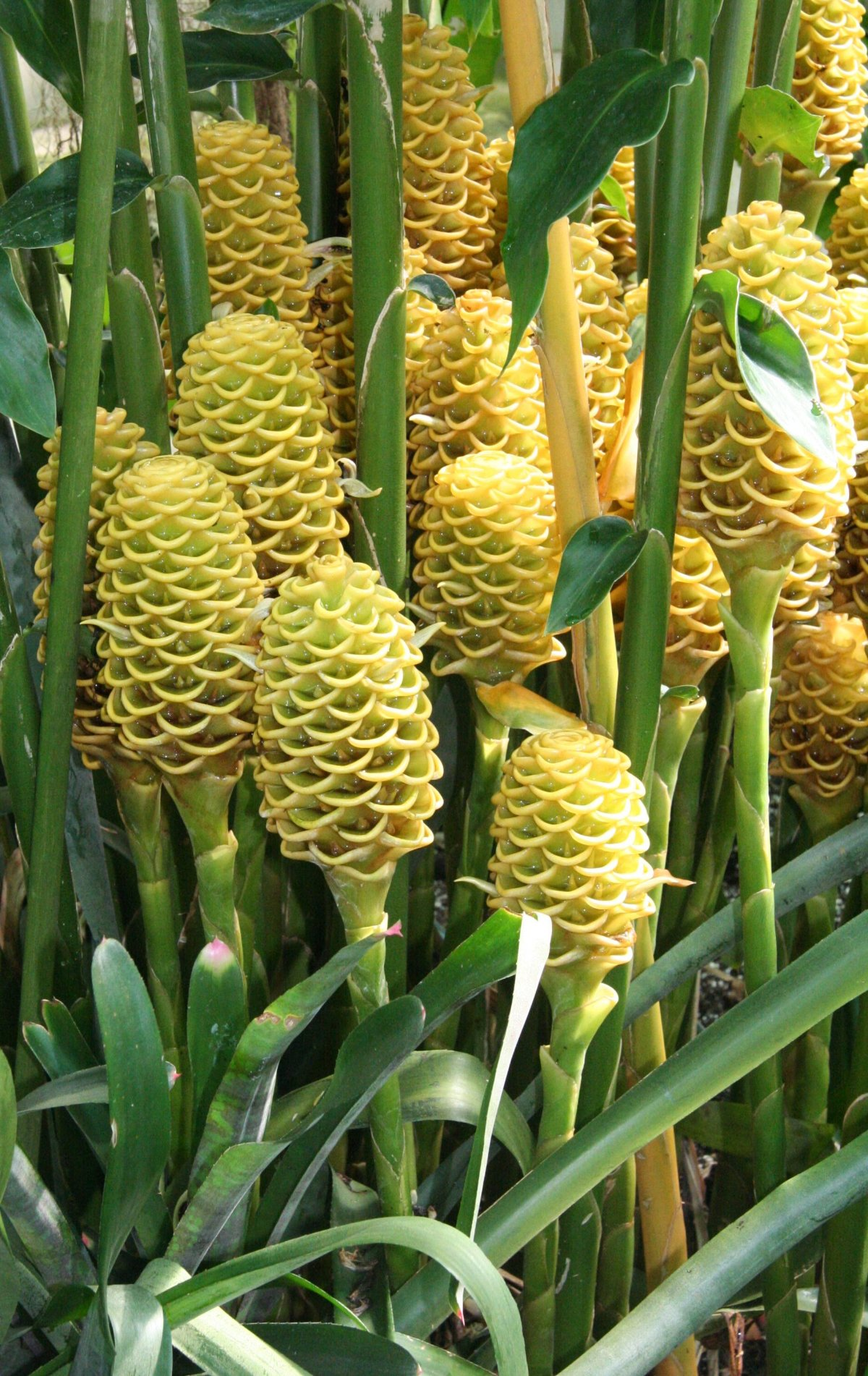 Zingiber spectabile - Ingwer, EGA Erfurt